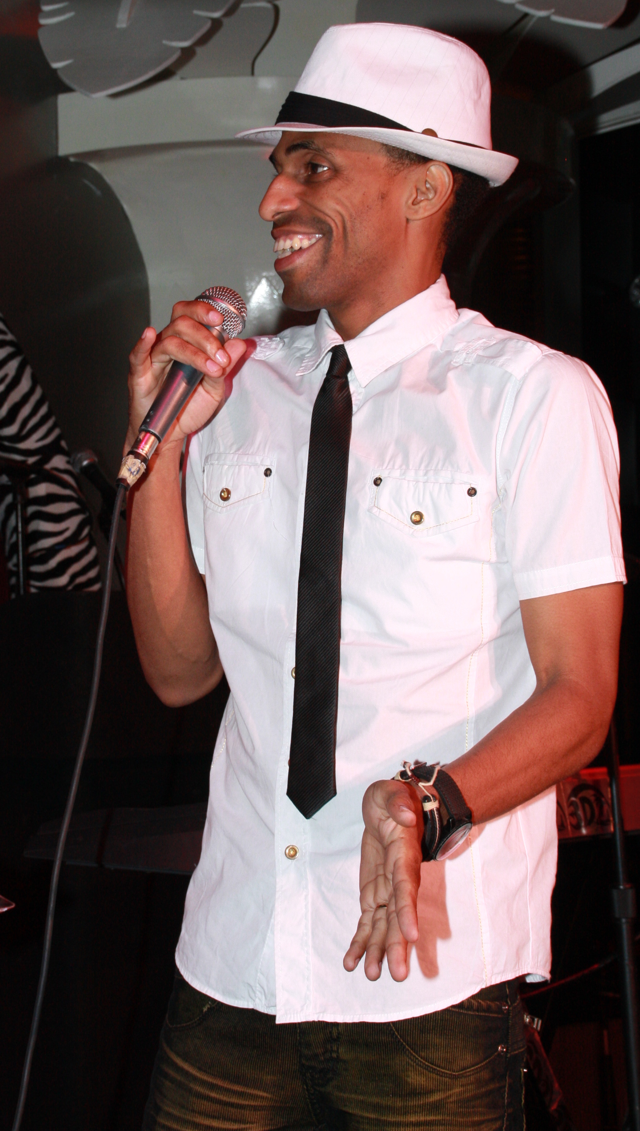 adjusted version of Image:Fausto_Mata.jpg